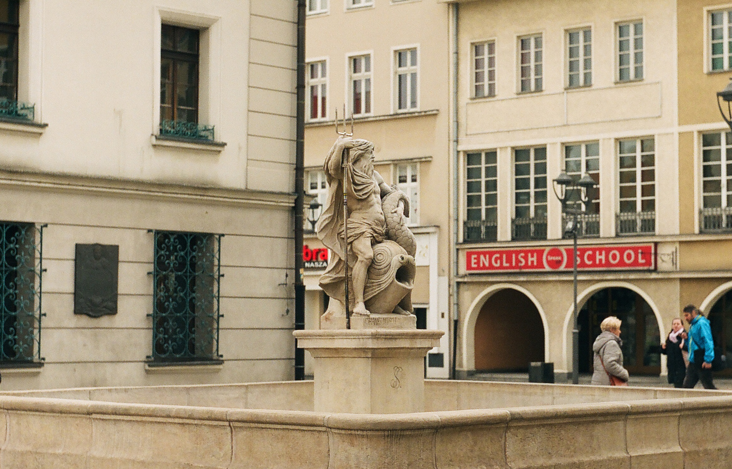 Neptune fountain on the Main Square in Gliwice